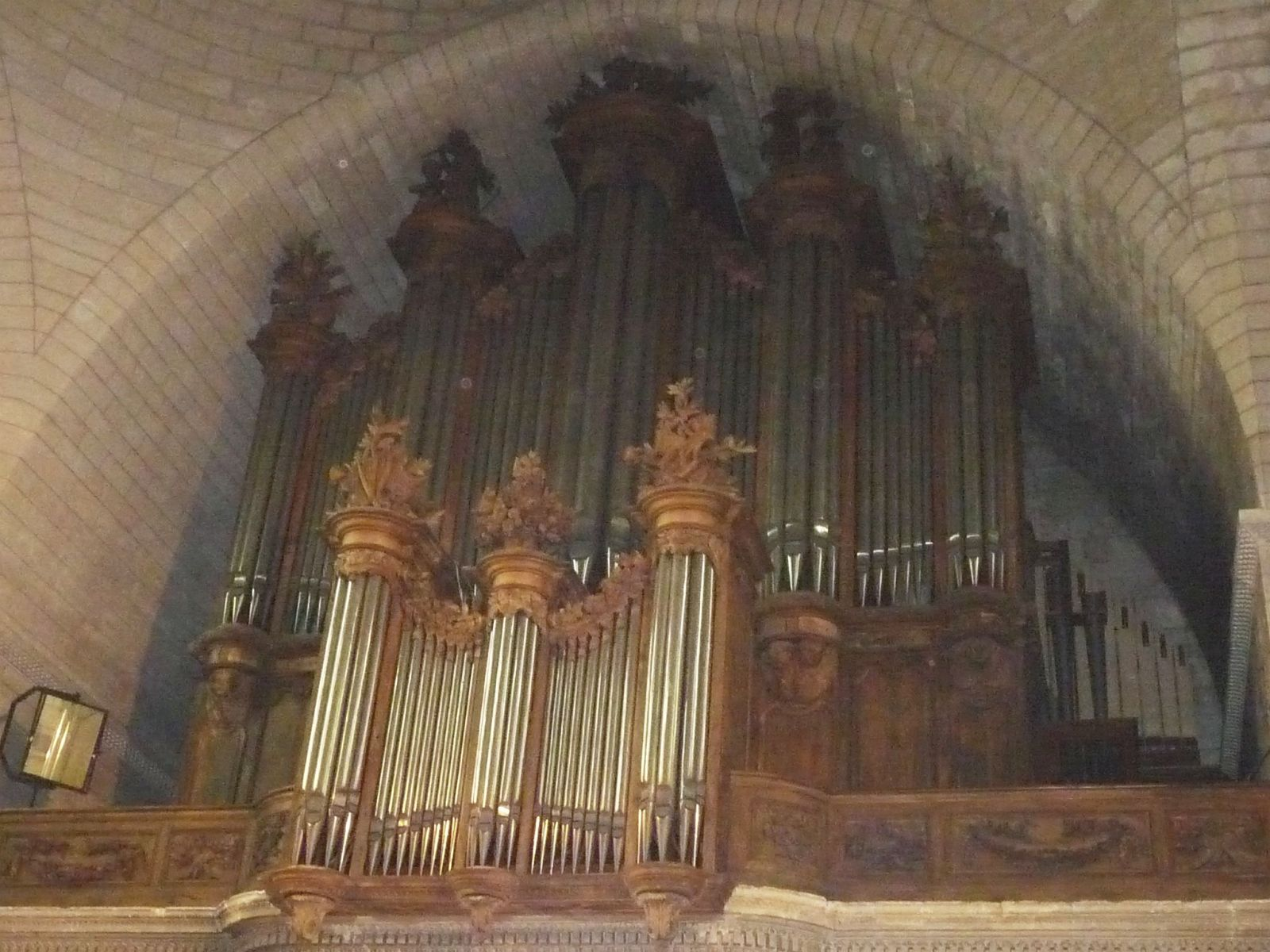 Organs of St Peter's Cathedral, Angoulême, Charente, SW France